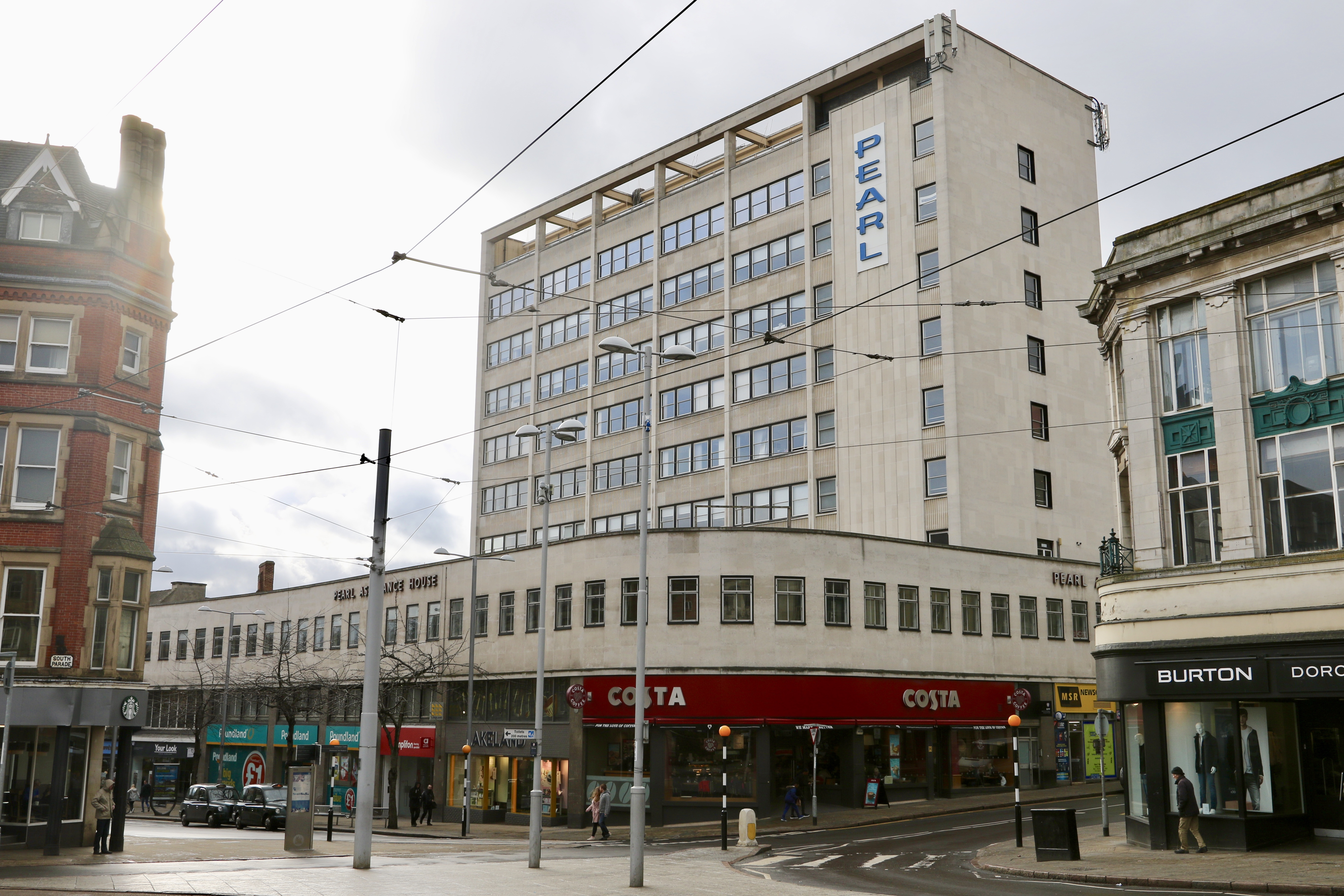 By Evans, Cartwright and Wollatt 1960-62. On Wheeler Gate and Friar Lane, Nottingham